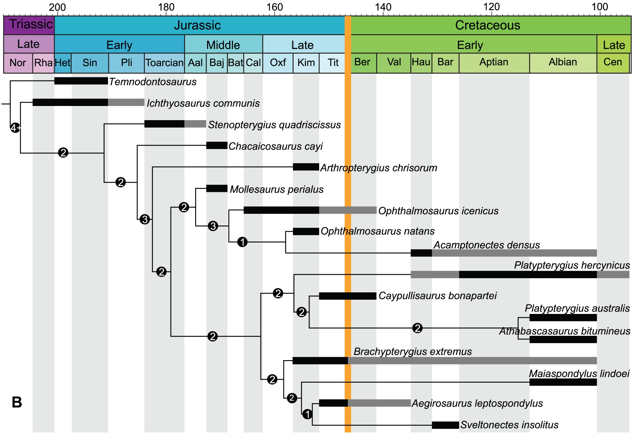 Phylogeny of Ichthyosauria. Thin lines represent ghost lineages, thick black lines indicate the stratigraphic range of a species. Thick grey lines refer to the straticraphic range of the corresponding genus.